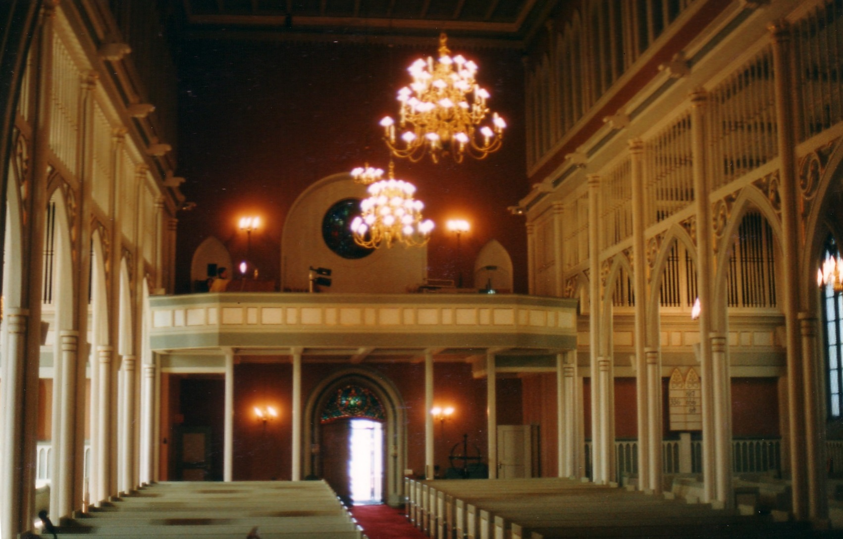 Sarpsborg Church, Sarpsborg, South Norway. The organ is divided in two parts and placed in each side aisle